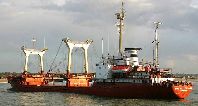 The cargo ship Pavel Korchagin in Brest, sister-ship of the Black Pearl. IMO Number: 7832775 MMSI Number: 273117800 Callsign: UCPD Length: 130 m Beam: 18 m